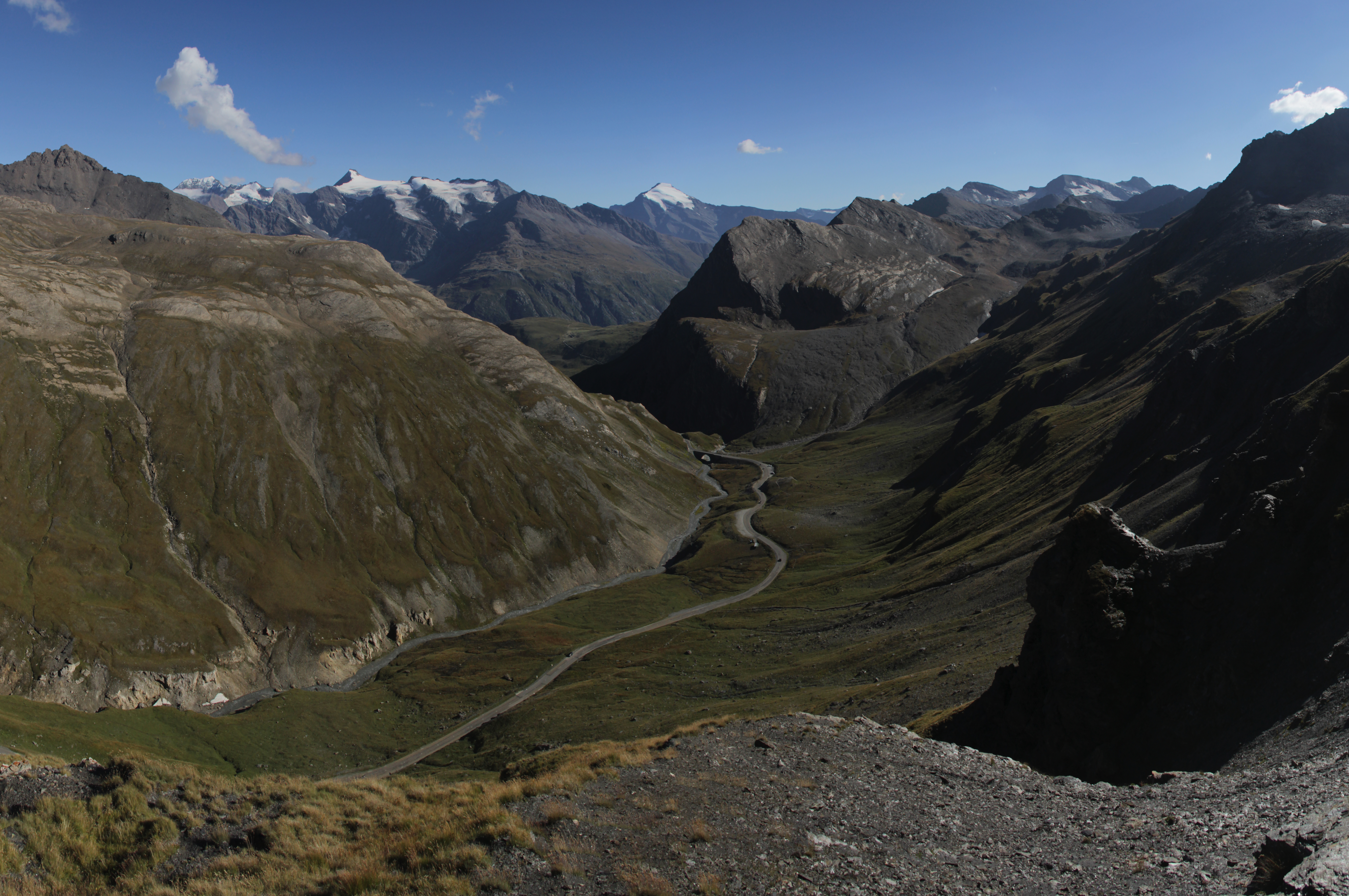 Panoramic view near the Col de l'Iseran